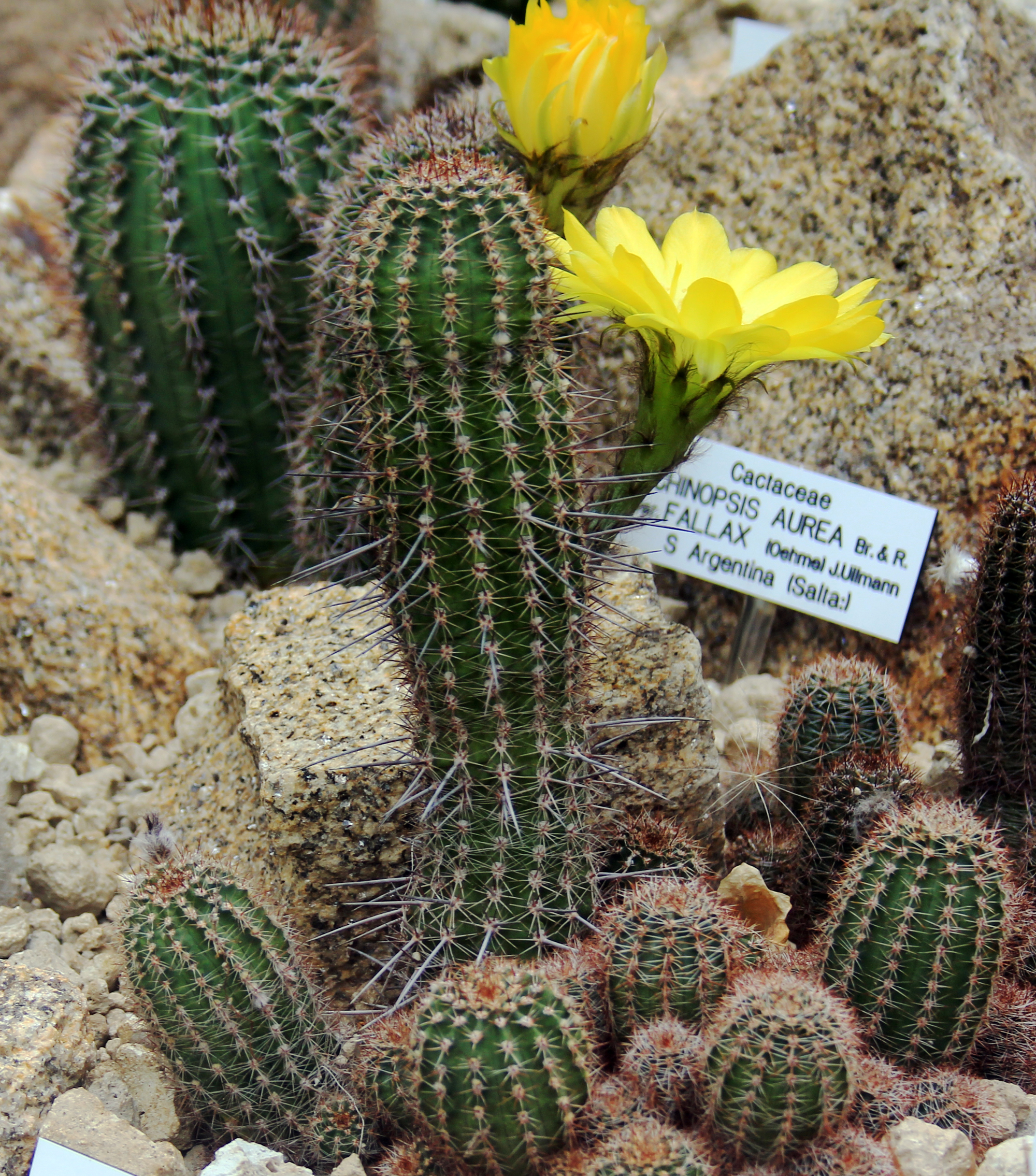 Cactus Echinopsis aurea, The Botanical Gardens of Charles University, Prague, Czech Republic